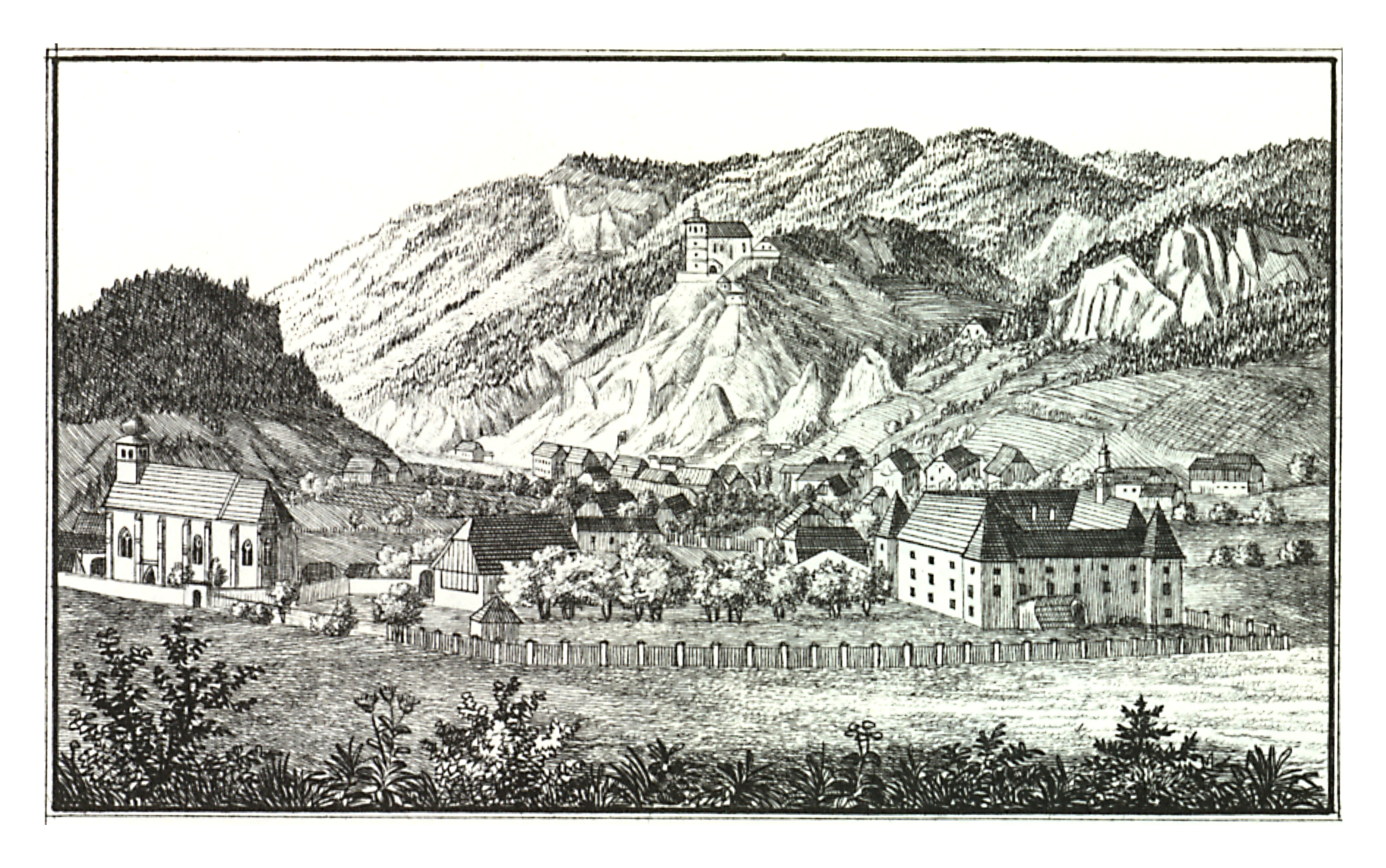 J. F. Kaiser - lithographirte Ansichten der Steyermärkischen Städte, Märkte und Schlösser Graz, 1825 Joseph Franz Kaiser (1786–1859) Alternative names J. F. KaiserDescriptionAustrian printer and editorDate of birth/death 11 March 1786 19 September 1859Location of birth/death Graz (Styria) GrazAuthority control : Q1499963 VIAF: 30629353 ISNI: 0000 0000 3083 0153 LCCN: n87141671 GND: 129880159 NLP: A24960305 WorldCat creator QS:P170,Q1499963 Scanprojekt Community Projektbudget 2012 This scan or this PDF-file was created within the GLAM-project Bookscanning, supported by Wikimedia Germany and Wikimedia Austria as a part of the community-project to capture books, documents and pictures which are not eligible to copyright or for which the copyright has expired. This document describes or depicts an object which is located in Austria today. Send requests for uncompressed scans to Hubertl. This work is in the public domain in its country of origin and other countries and areas where the copyright term is the author's life plus 100 years or less. You must also include a United States public domain tag to indicate why this work is in the public domain in the United States. This file has been identified as being free of known restrictions under copyright law, including all related and neighboring rights.